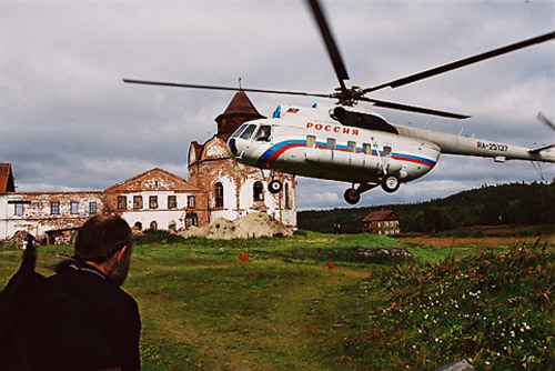 THE SOLOVETSKY ISLANDS, ARKHANGELSK REGION. The Holy Trinity skete on Anzer Island.